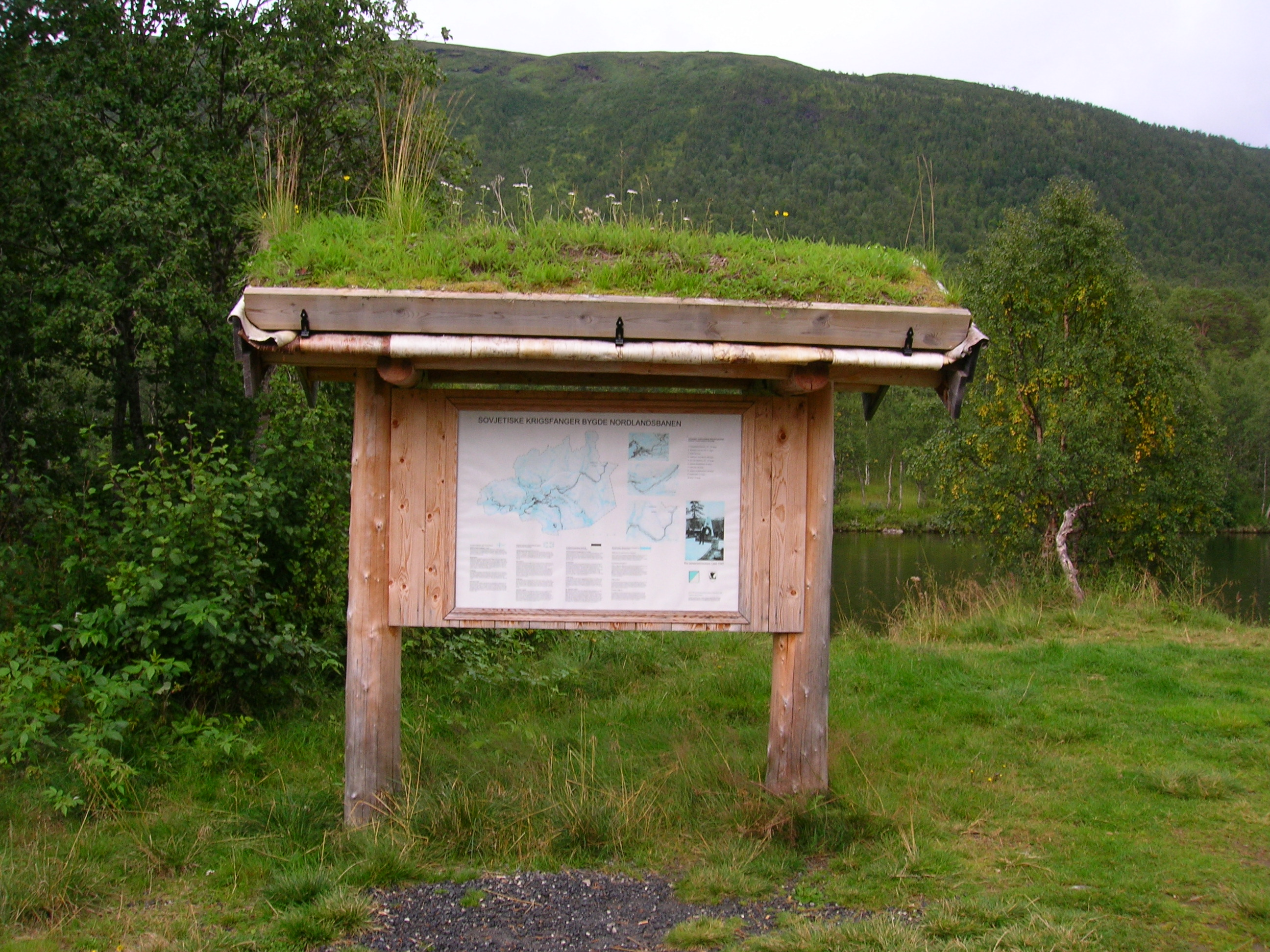 Memorial board of the around 5,000 Soviet prisoners, who built Rana's part of Nordlandsbanen (Nordland railway) through slave labour for the Nazi occupants during World War II. Placed by Rana Museum in 2003 at Storvoll, Dunderland, Rana municipality, county of Nordland, Norway, Photo 26 August, 2007 with a Nikon Coolpix 5600 5,1 Megapixel camera.